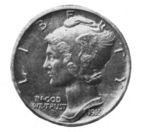 Early strike of the 1916 Mercury dime. These coins were not released to circulation due to production problems, and the design was altered before final release. All coins with this exact design were melted except for a small number, only one is known. However, it was illustrated in the Mint Director's report for 1916, which is how we can identify the one known piece.